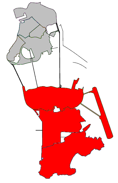 Maps of Macau